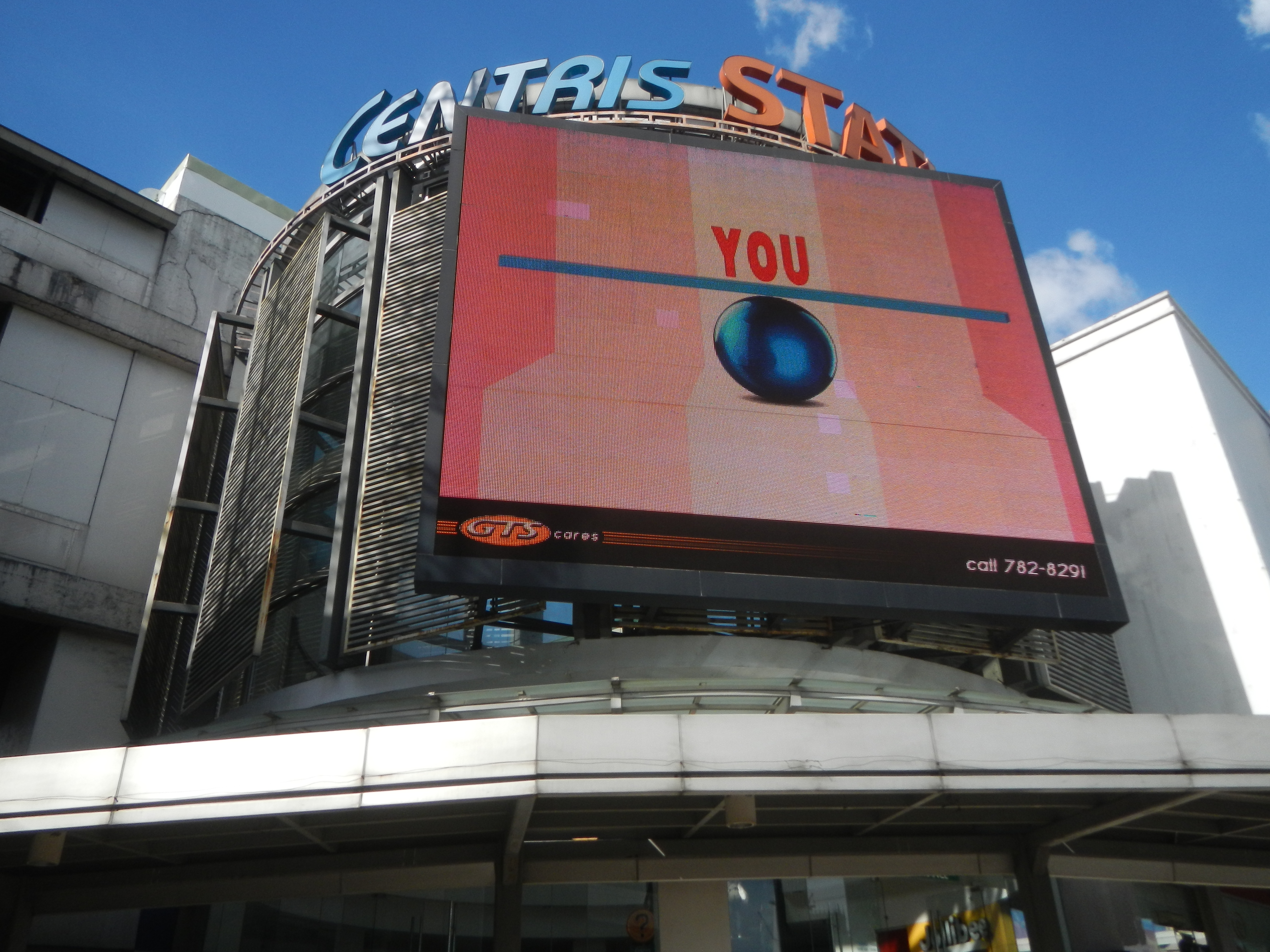 Pinyahan, Eton Centris One Cyberpod Centris 14°38'33"N 121°2'21"E Two Cyberpod Centris 14°38'31"N 121°2'23"E Eton Centris Station (Quezon City) 14°38'37"N 121°2'19"E Centris Station Centris Walk Quezon Avenue MRT Station 14°38'33"N 121°2'18"E Quezon Avenue MRT Station in the List of barangays of Metro Manila, Legislative districts of Quezon City District IV, Barangays of Quezon City Pinyahan, District IV, Diliman, Quezon City; from EDSA (road) (Note: Judge Florentino Floro, the owner, to repeat, Donor Florentino Floro of all these photos hereby donate gratuitously, freely and unconditionally all these photos to and for Wikimedia Commons, exclusively, for public use of the public domain, and again without any condition whatsoever).